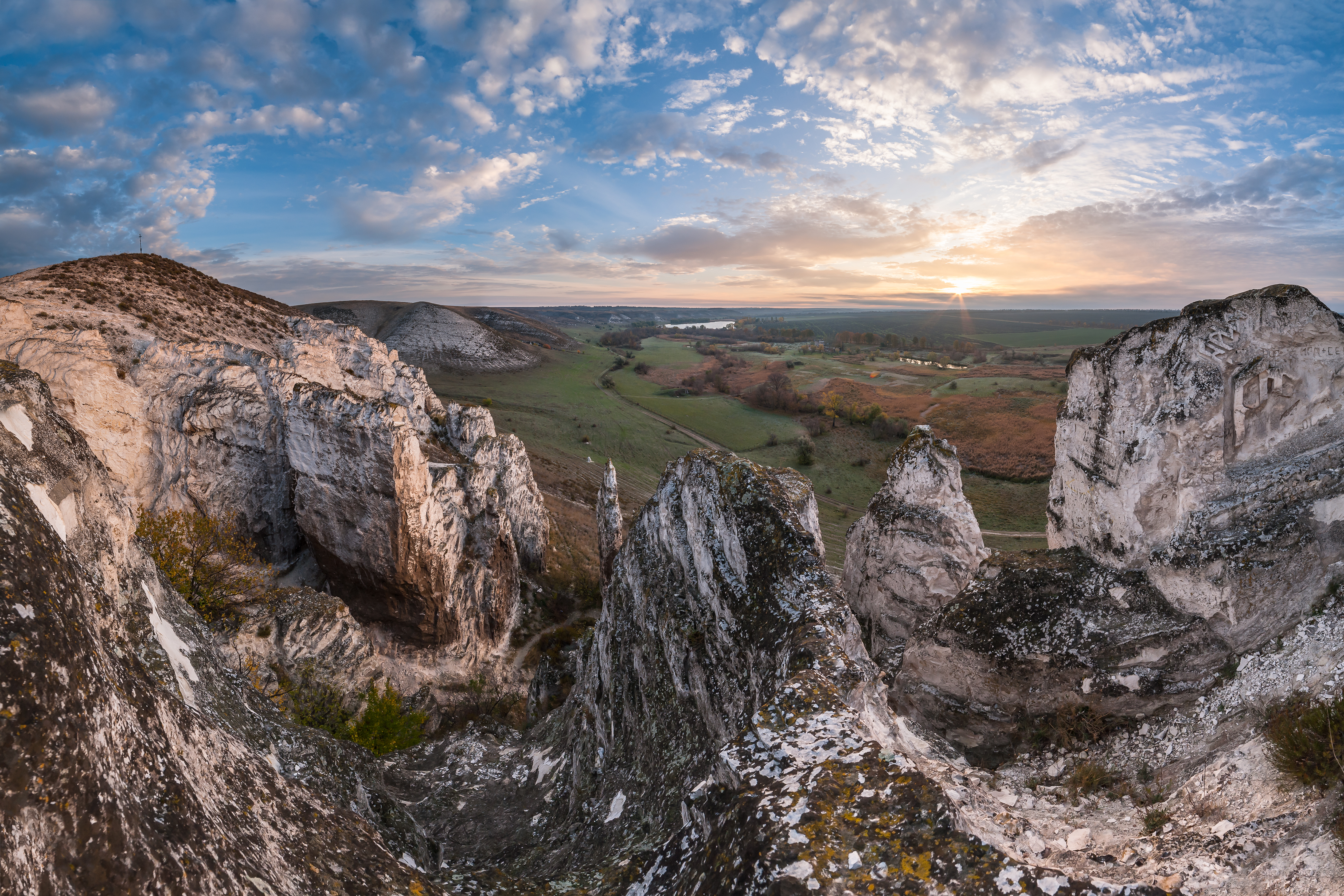 The rocky outcrop of the Upper Cretaceous, Bilokuzmynivka, Ukraine